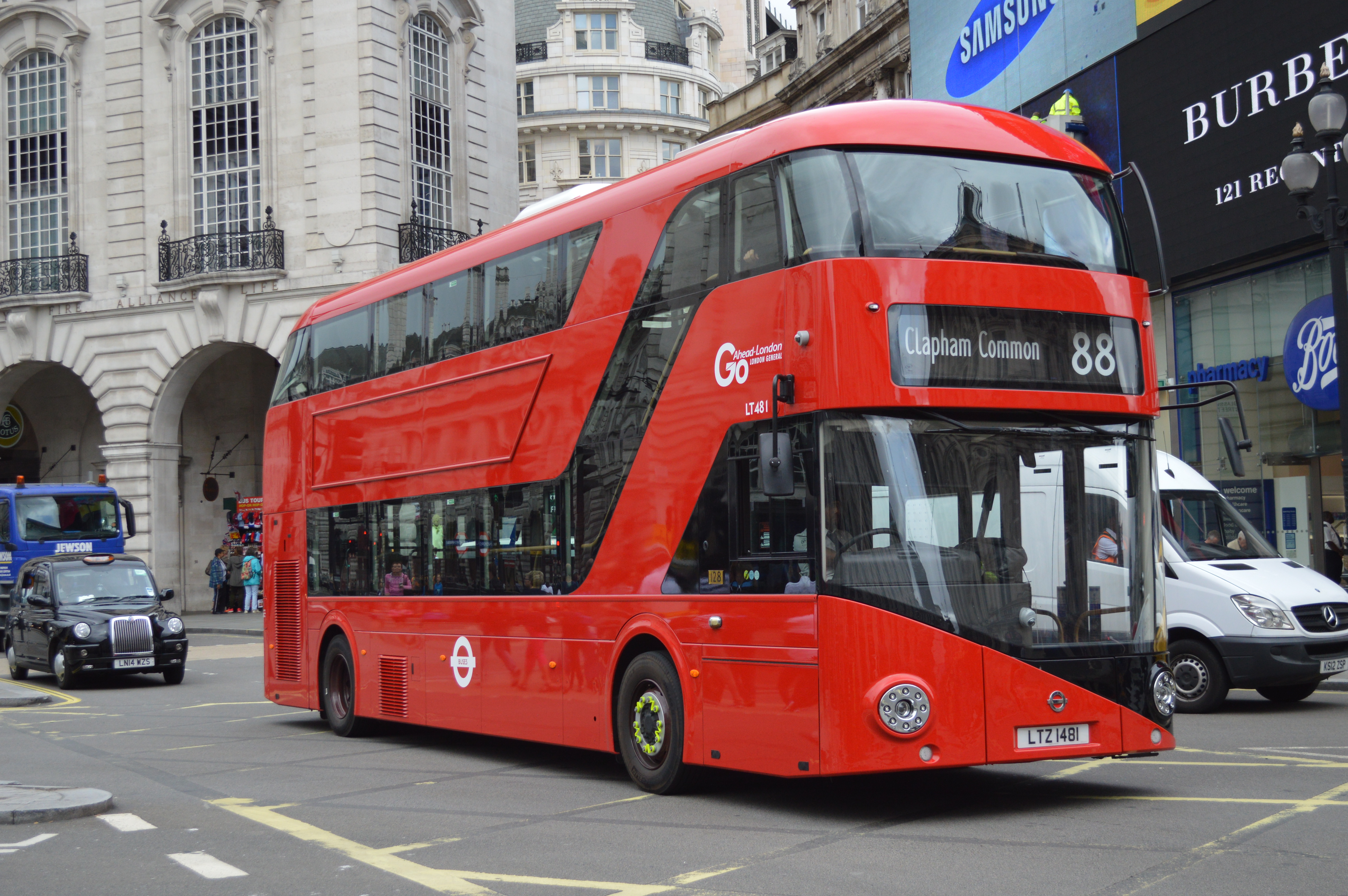 LT 481 (LTZ 1481) Go-Ahead London New Routemaster is seen in Piccadilly Circus, Central London on route 88 to Clapham Common. This is seen on Tuesday 25 August 2015.